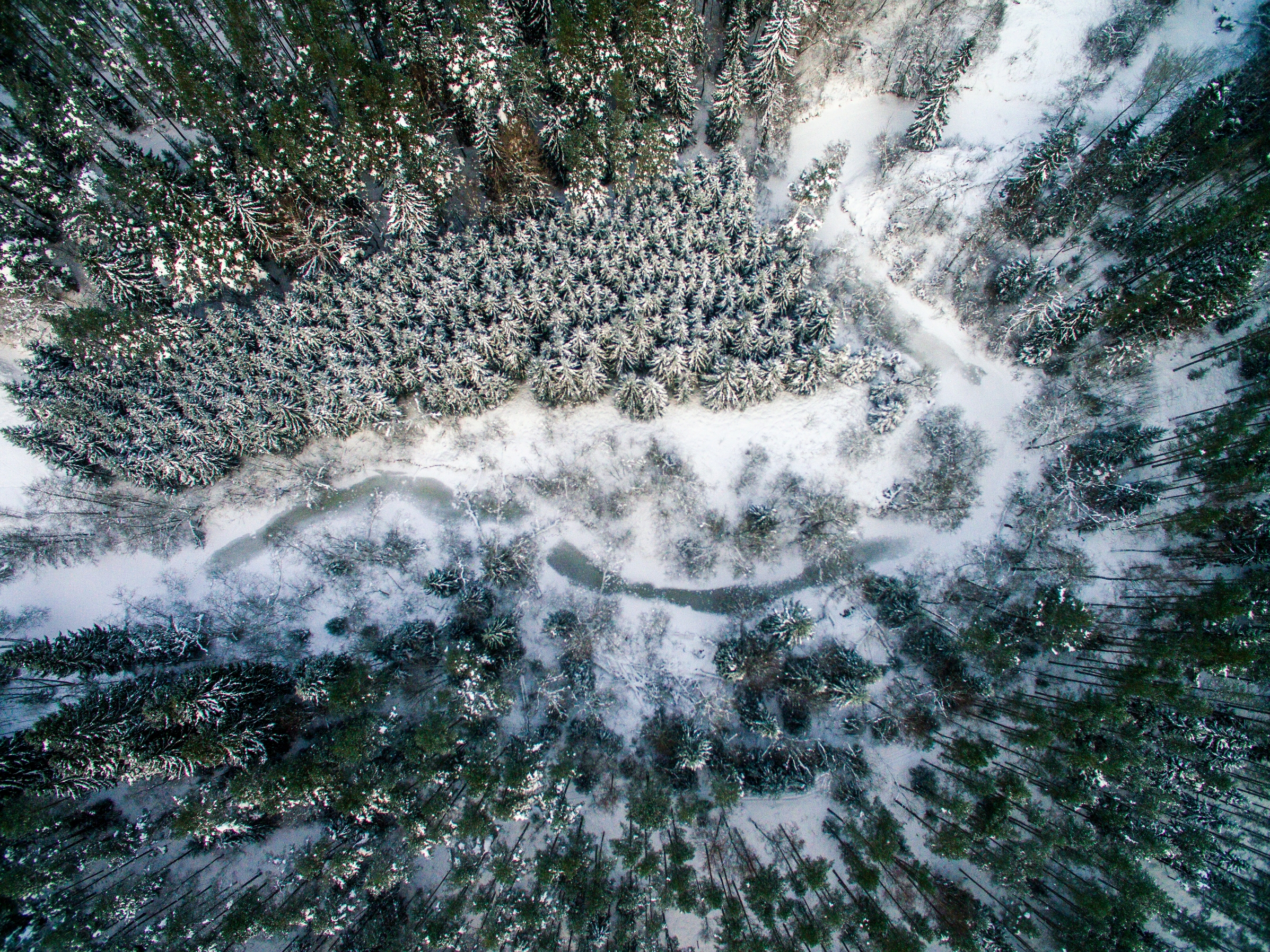 Vääna River in winter. Vääna Limited-conservation Area, Harju County, Estonia